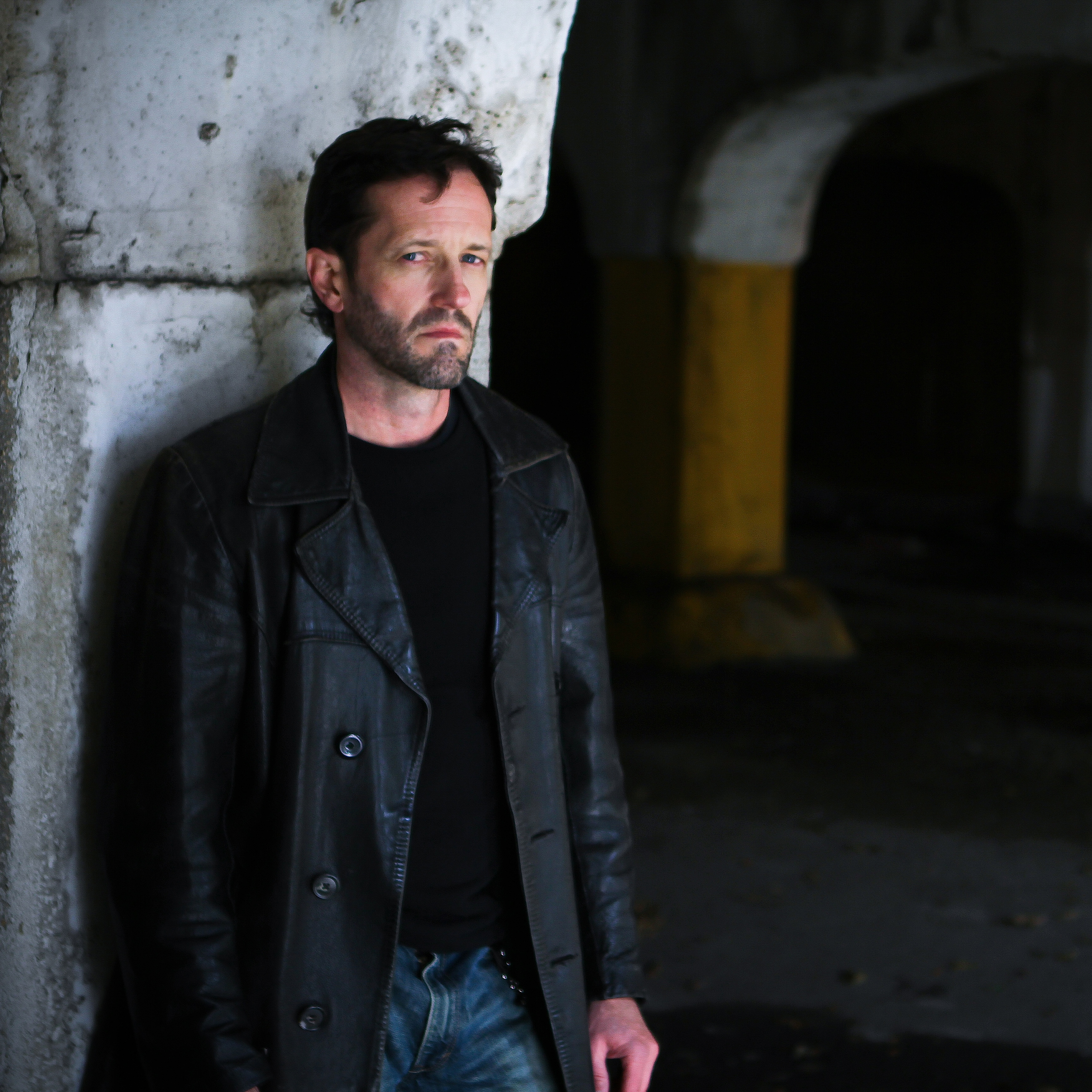 Montana in 2013